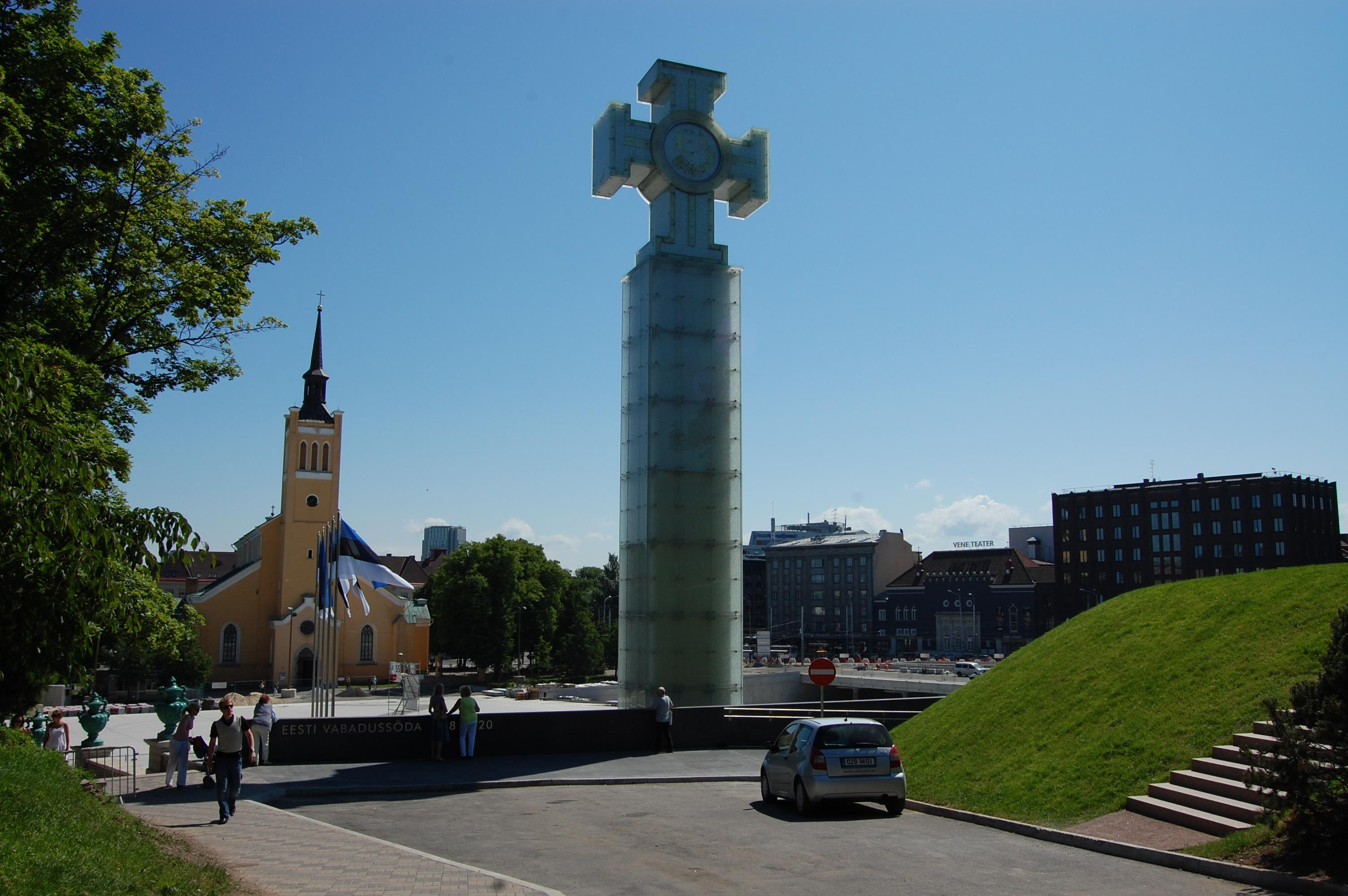 New statue in Estonia